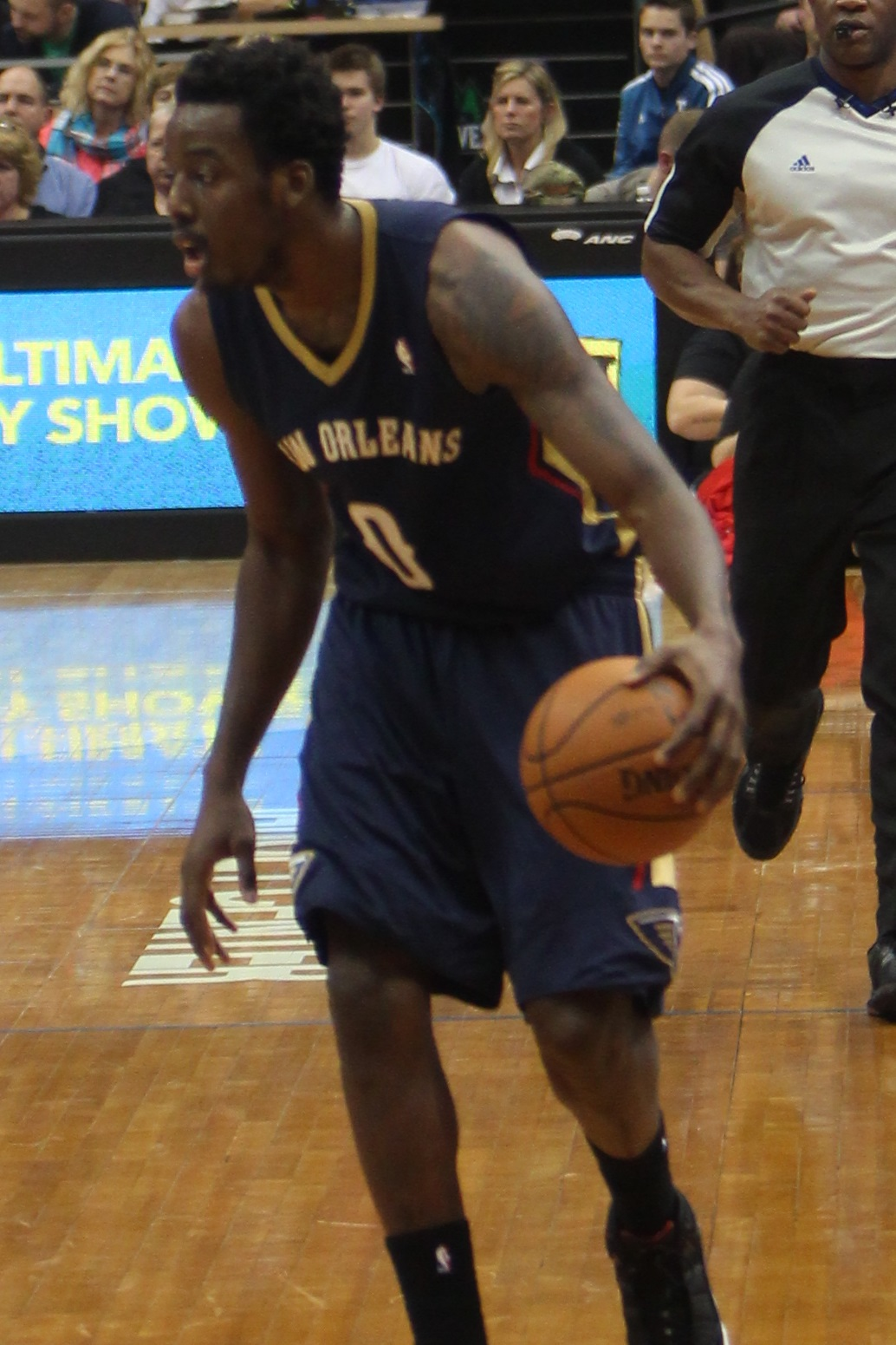 Al-Farouq Aminu at the Target Center